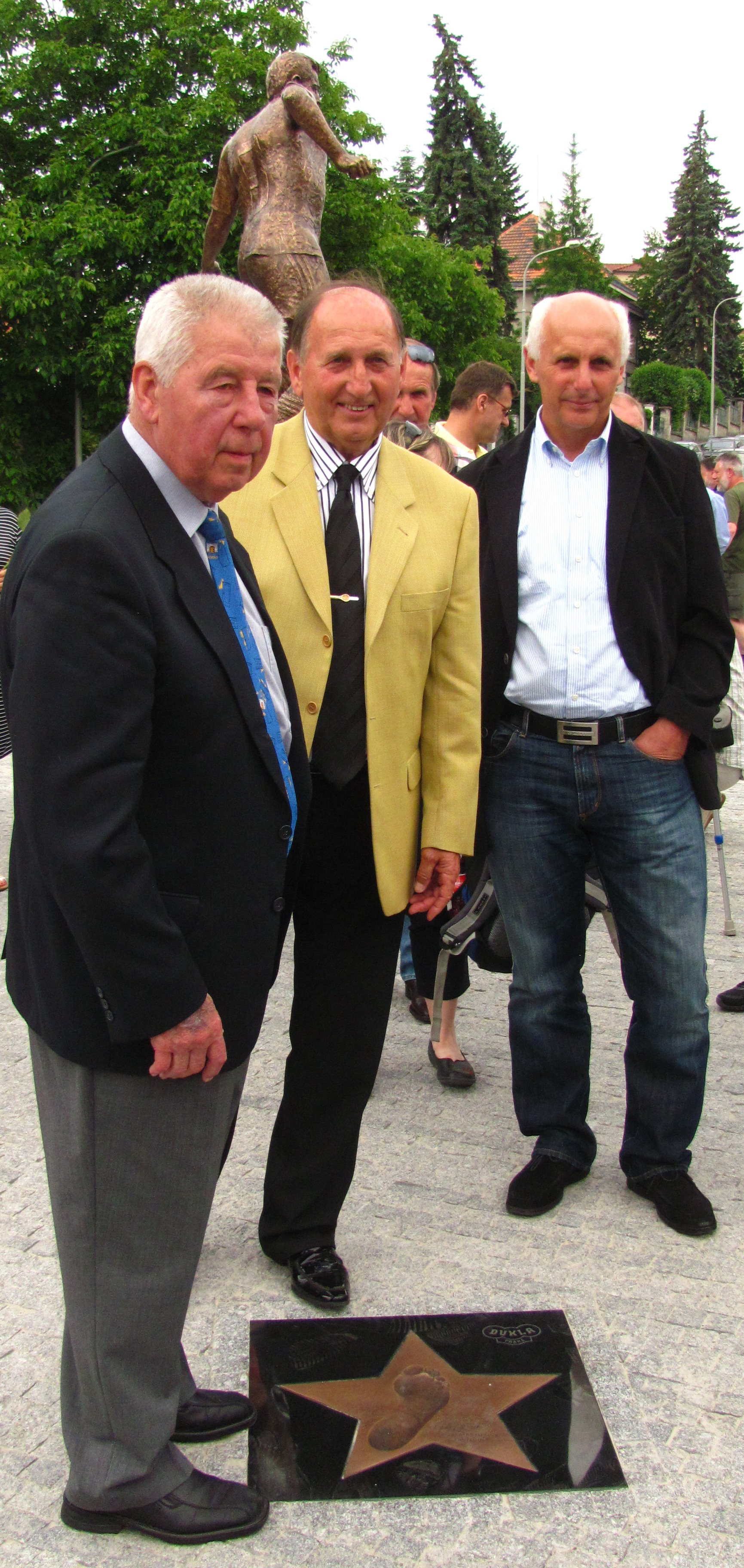 Josef Masopust (left), Czech footballer